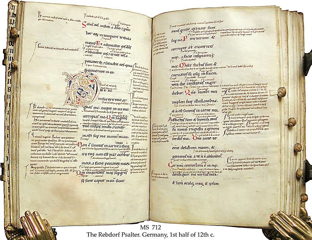 The Rebdorf Psalter: Book of Psalms with Gloss by Anselm of Laon. From the Schøyen Collection.